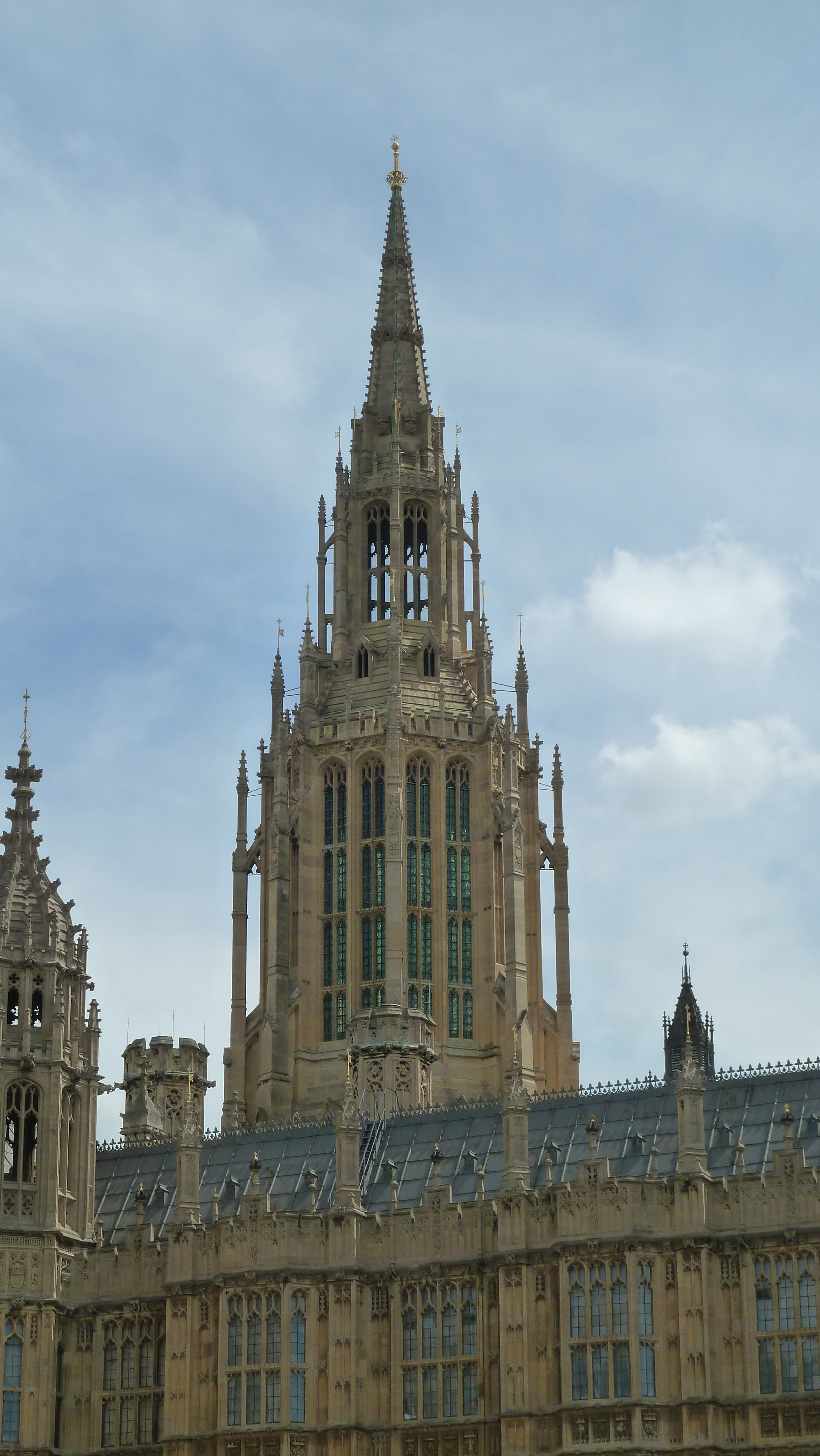 View from Old Palace Yard of the Central Tower of the Palace of Westminster, London